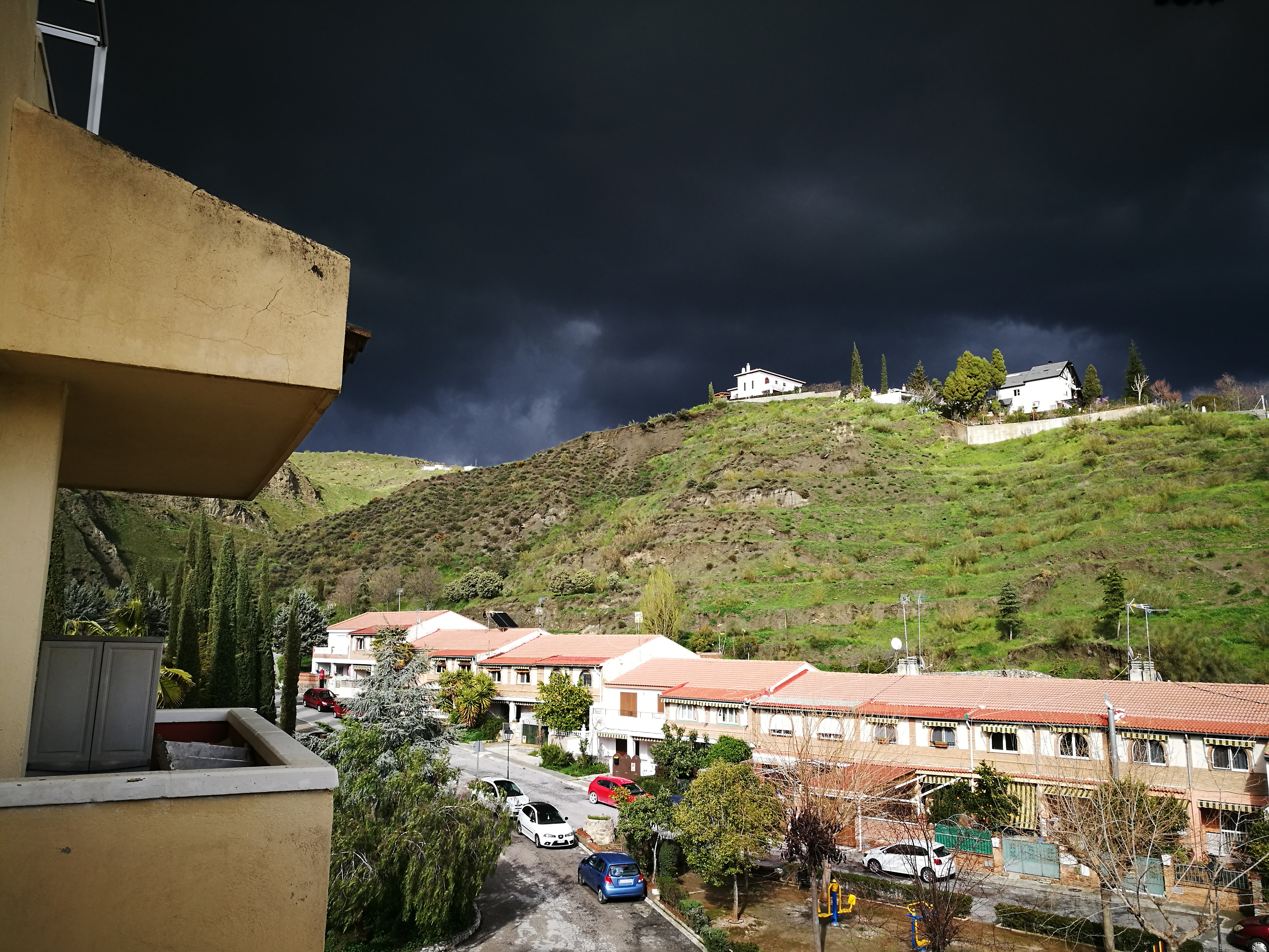 Storm in cenes de la vega the 17th march of 2018